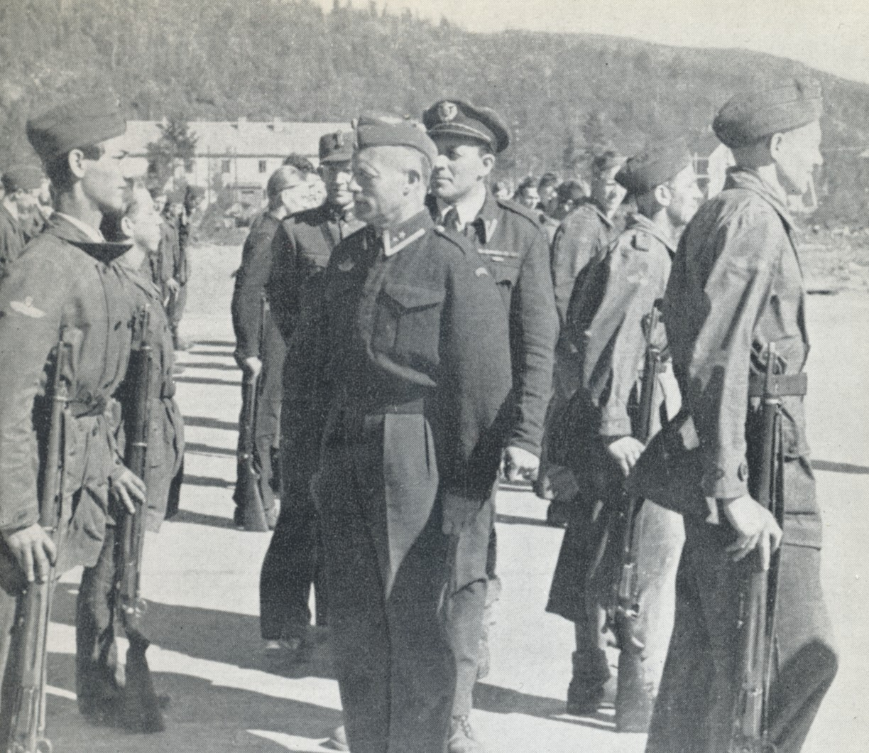 Lt.Col. Ole Reistad (1898-1949) and Maj. Olai Grønmark (1908-1968) inspecting at Bardufoss. Prior to Dec. 1946, when Grønmark was assigned elsewhere.